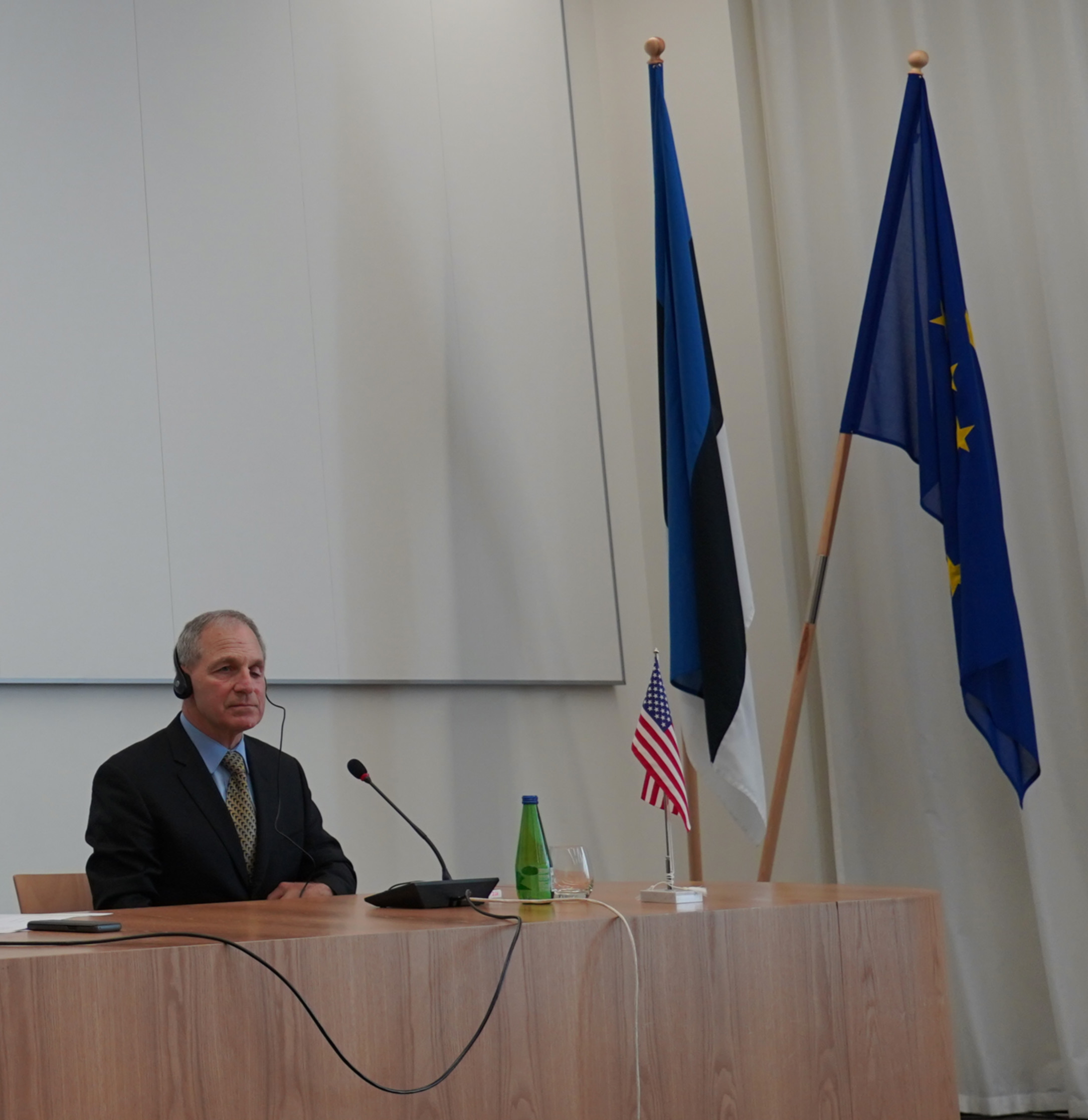 Managing partner of the law firm Freeh Sporkin & Sullivan and former FBI Director Louis J. Freeh at a press conference in the Estonian Ministry of Finance, Tallinn, 3 July 2020.